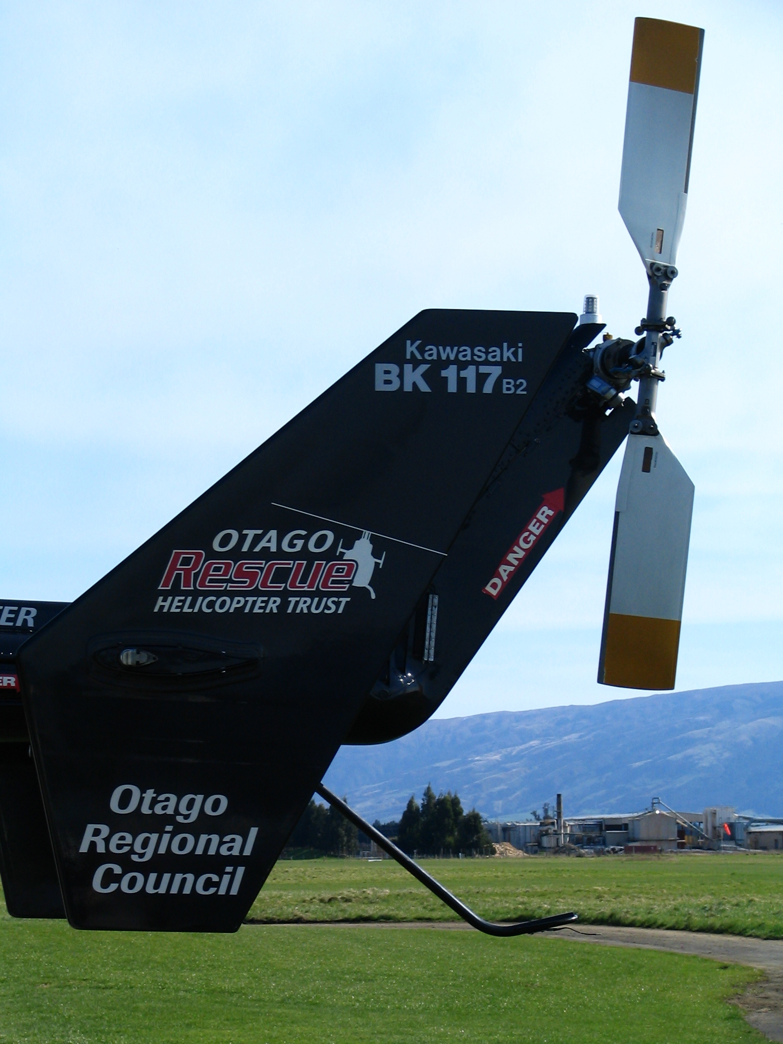 Tail rotor of the Otago Regional Rescue Helicopter ZK-HUP at Taieri Aerodrome, Dunedin, New Zealand.